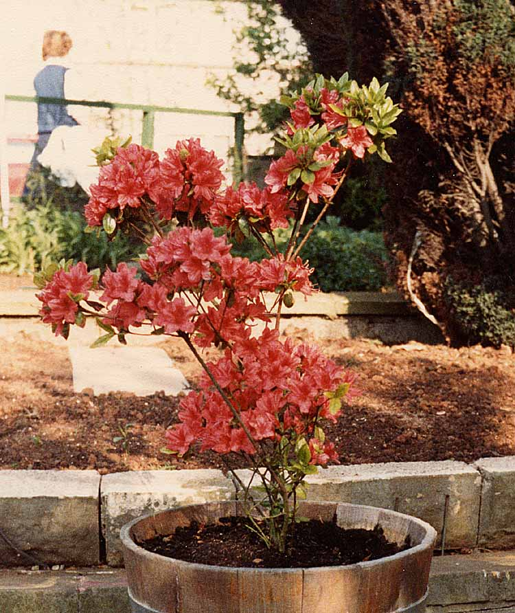 Azalea 'Hinodegiri' in full flower in Yate, Bristol, England, in May.